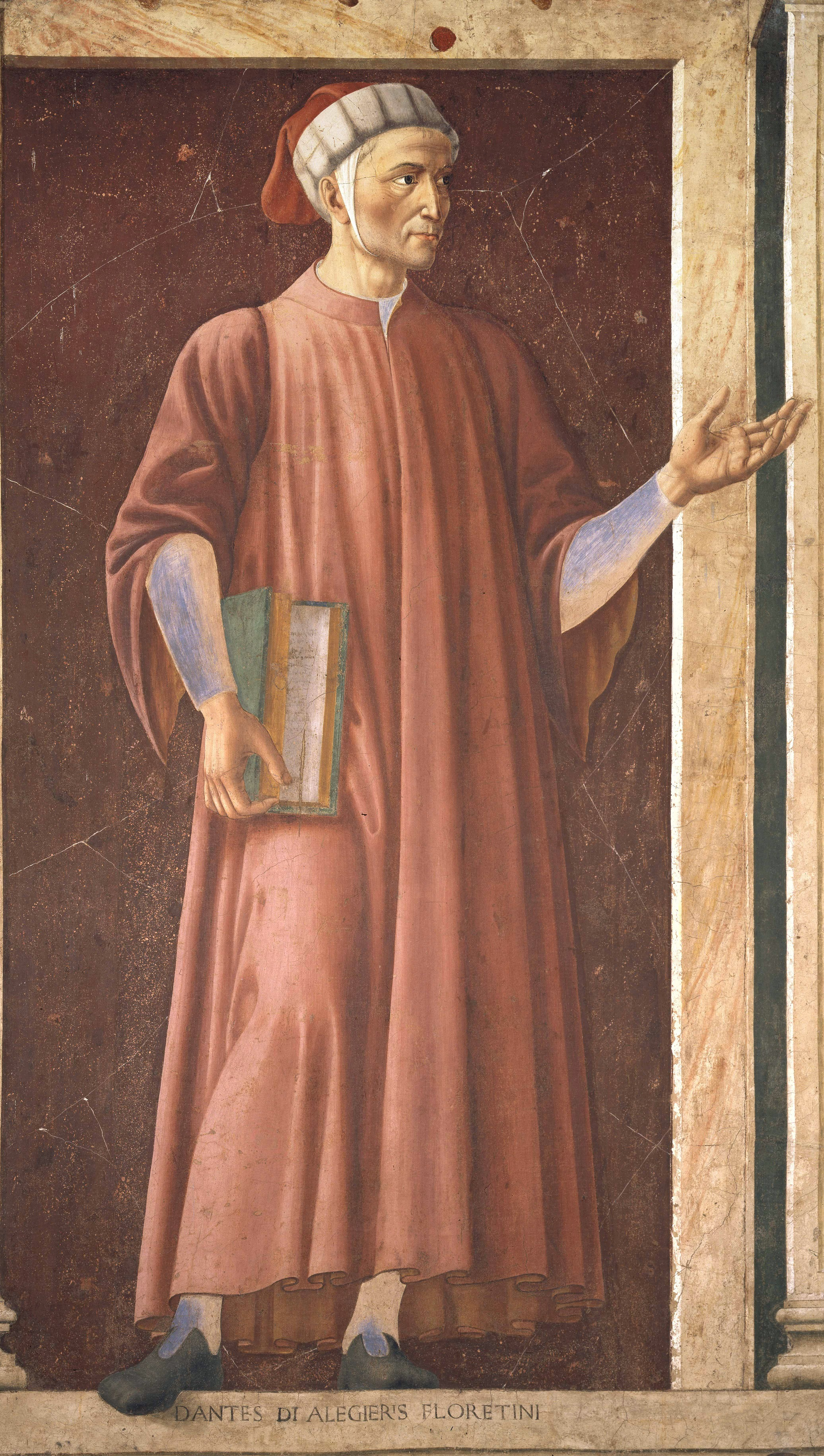 One of the Famous Men and Women cycle